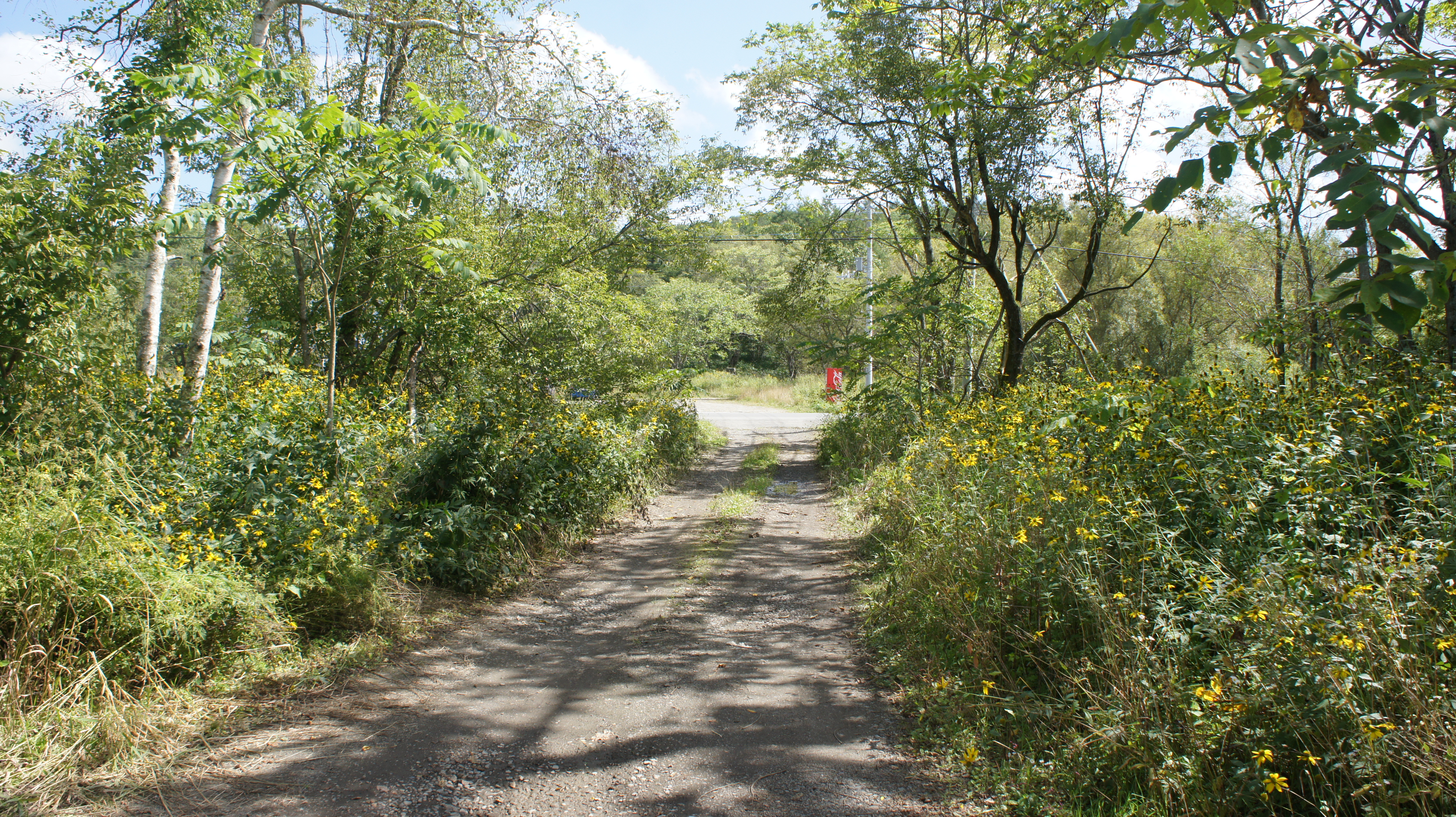 Front of JR Senmo-Main-Line Gojikkoku Station